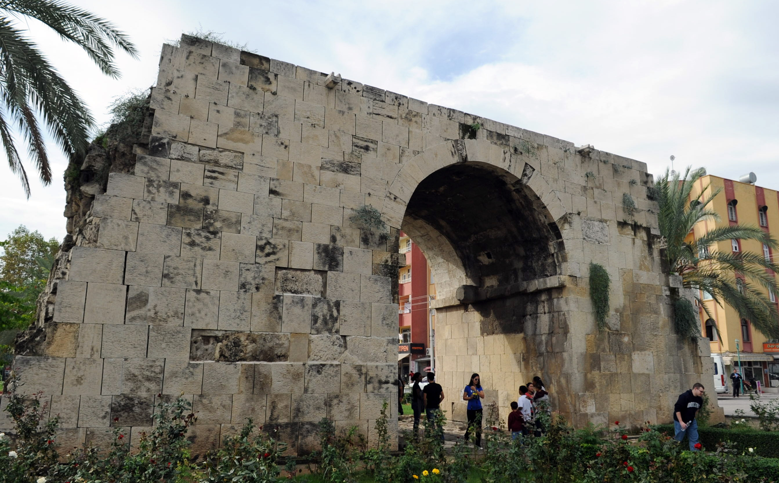 Team Incirlik members walk through Cleopatra's Gate Nov. 14, 2012, in Tarsus, Turkey. The gate was named after the Egyptian queen Cleopatra VII. With a history dating back more than 5,000 years, Tarsus has been an important stop for traders and a focal point for many civilizations including the Roman Empire.